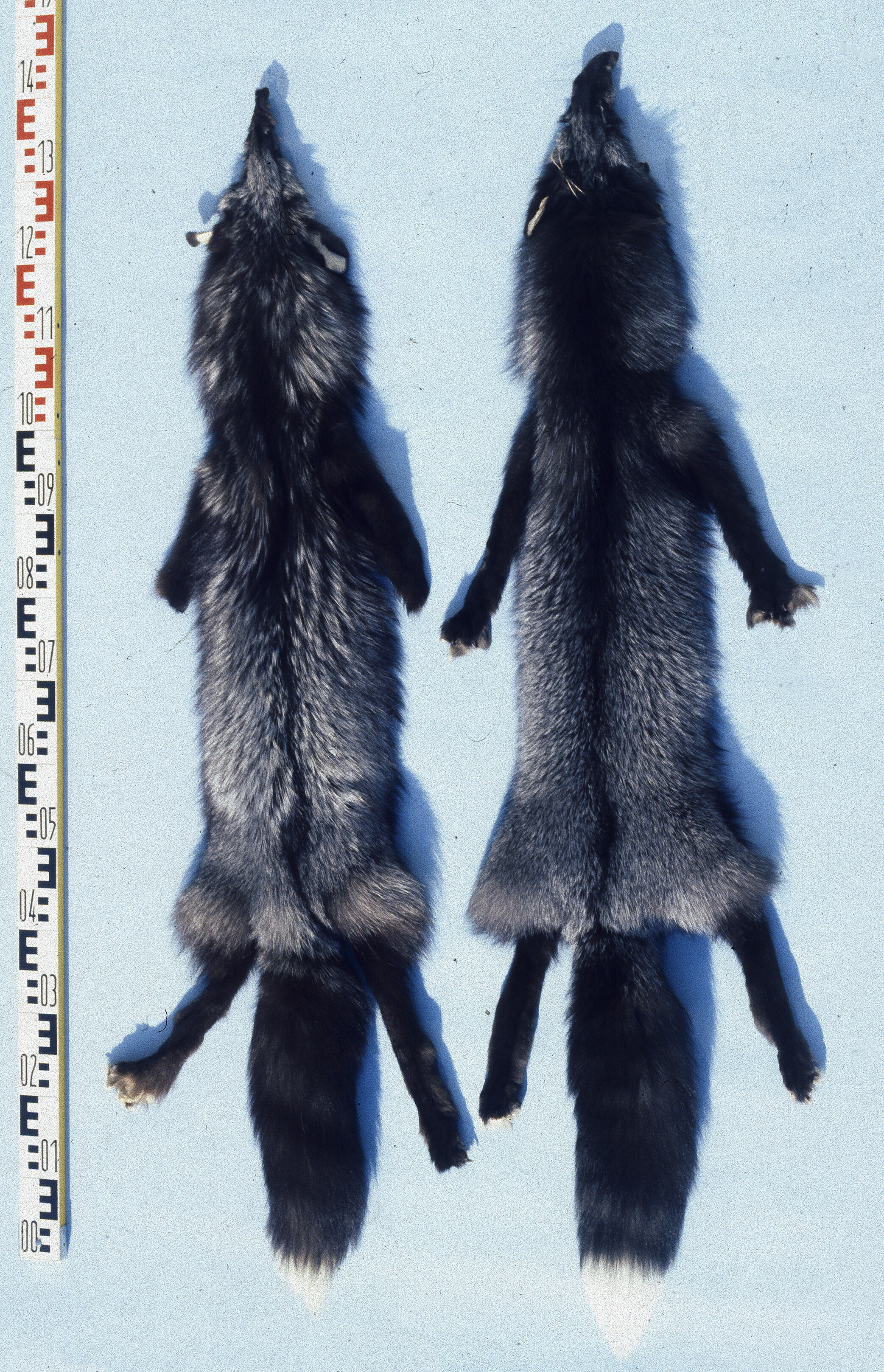 Silver fox fur skins (Vulpes vulpes), Norway & USSR, Breeding. Fur skin collection, Bundes-Pelzfachschule, Frankfurt/Main, Germany